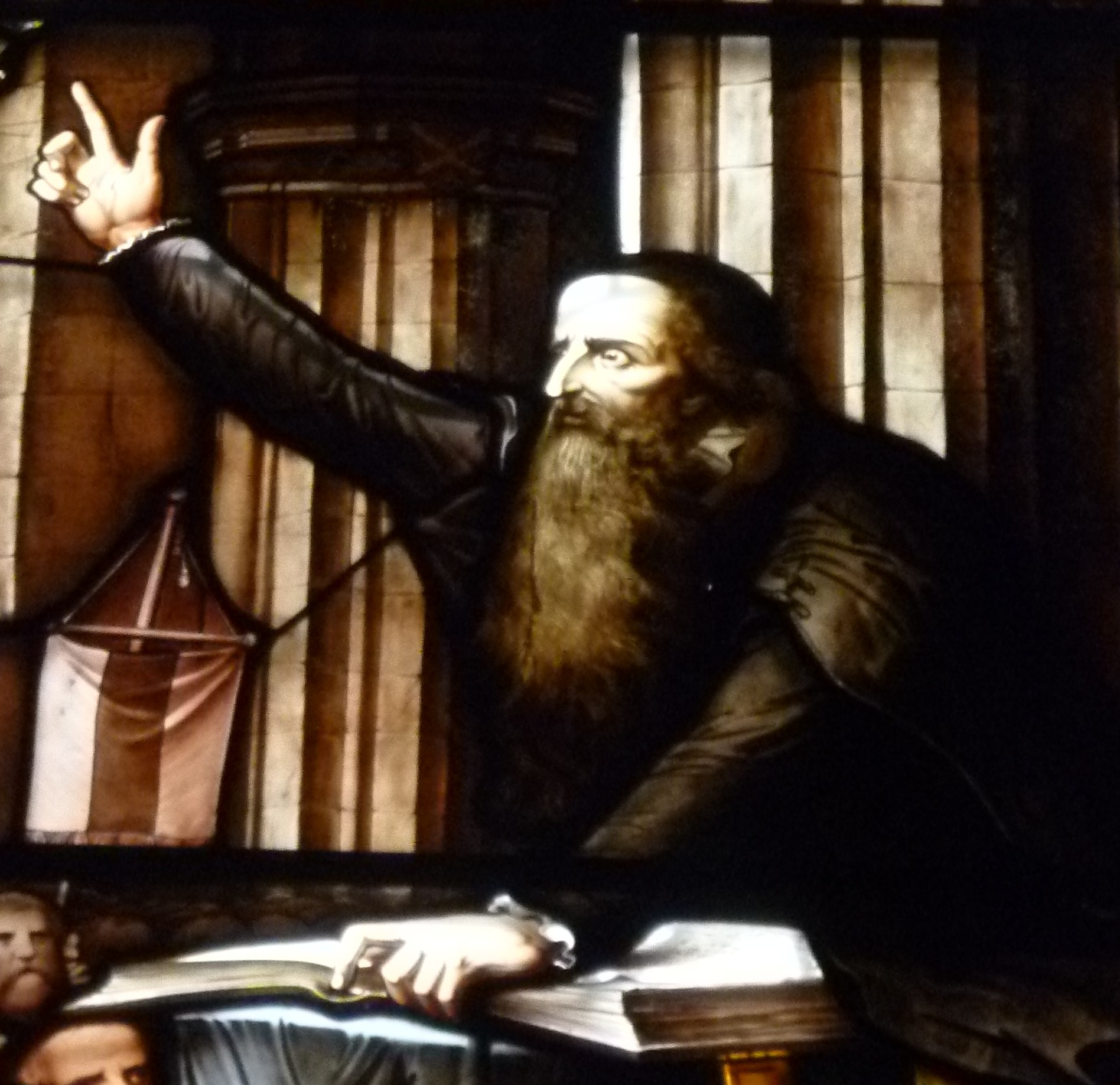 Detail from a Victorian stained glass window in St. Giles, Edinburgh. It shows Knox, two years before his own death, preaching at the funeral of the Regent Moray in 1570. He preached from Revelation 14:13, "Blessed are the dead which die in the Lord". "Oh Lord, in what misery and confusion found he this realm! and to what rest and quietness now by his labours suddenly he brought the same, all estates, but especially the poor commons, can witness." -- from Knox's sermon